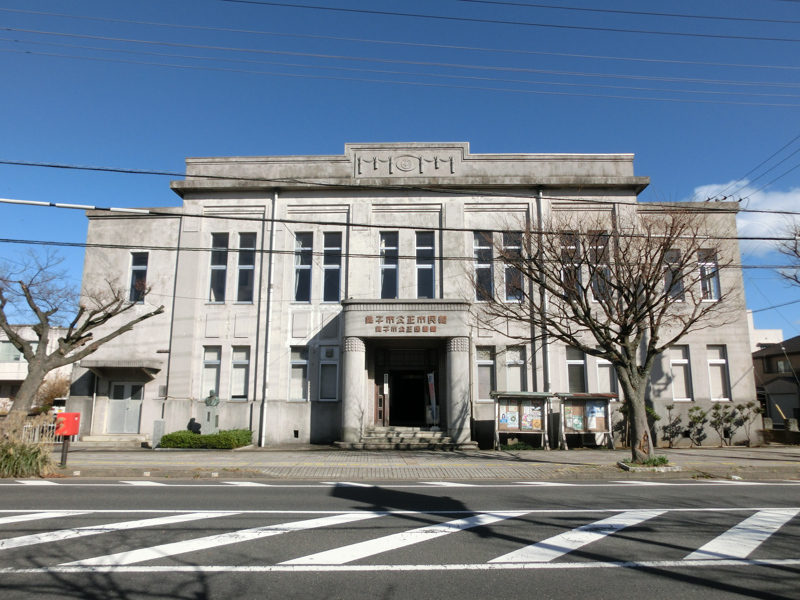 Choshi City Kosei Civic Hall